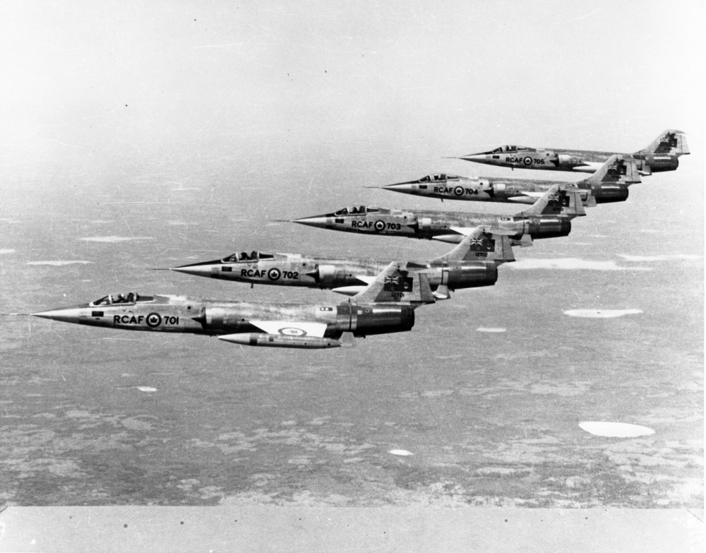 PictionID: 42254297 - Title:Canadair CF-104 12701 RCAF (mfr H-214 via RJF) *Catalog: The first CF-104 builging in 1961� Filename::17_000001.tif - -----* Image from the René Francillon Photo Archive. Having had his interest in aviation sparked by being at the receiving end of B-24s bombing occupied France when he was 7-yr old, René Francillon turned aviation into both his vocation and avocation. Most of his professional career was in the United States, working for major aircraft manufacturers and airport planning/design companies. All along, he kept developing a second career as an aviation historian, an activity that led him to author more than 50 books and 400 articles published in the United States, the United Kingdom, France, and elsewhere. Far from “hanging on his spurs,” he plans to remain active as an author well into his eighties.-------PLEASE TAG this image with any information you know about it, so that we can permanently store this data with the original image file in our Digital Asset Management System.--------------SOURCE INSTITUTION: San Diego Air and Space Museum Archive